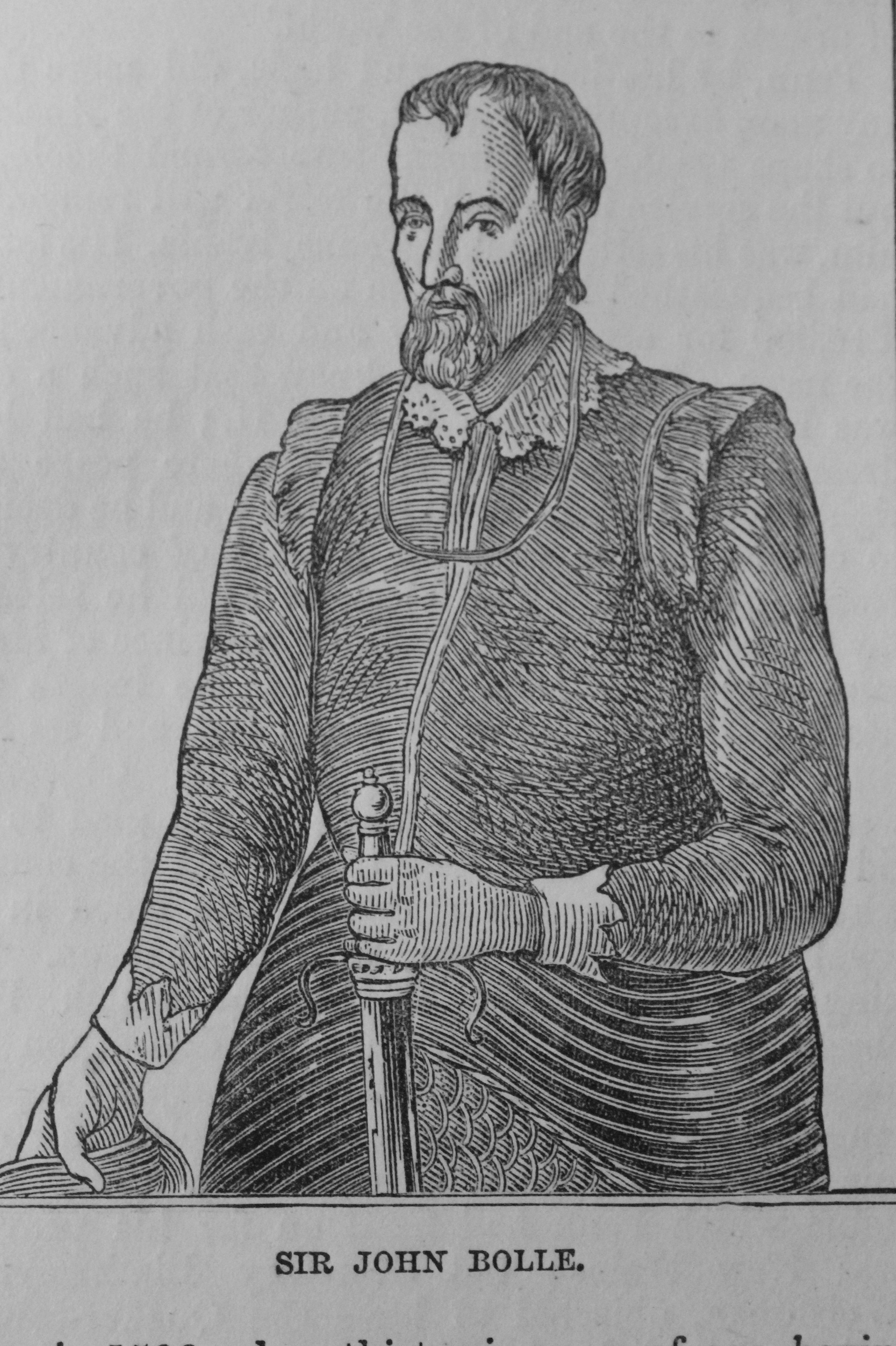 Engraving of Sir John Bolle c.1600